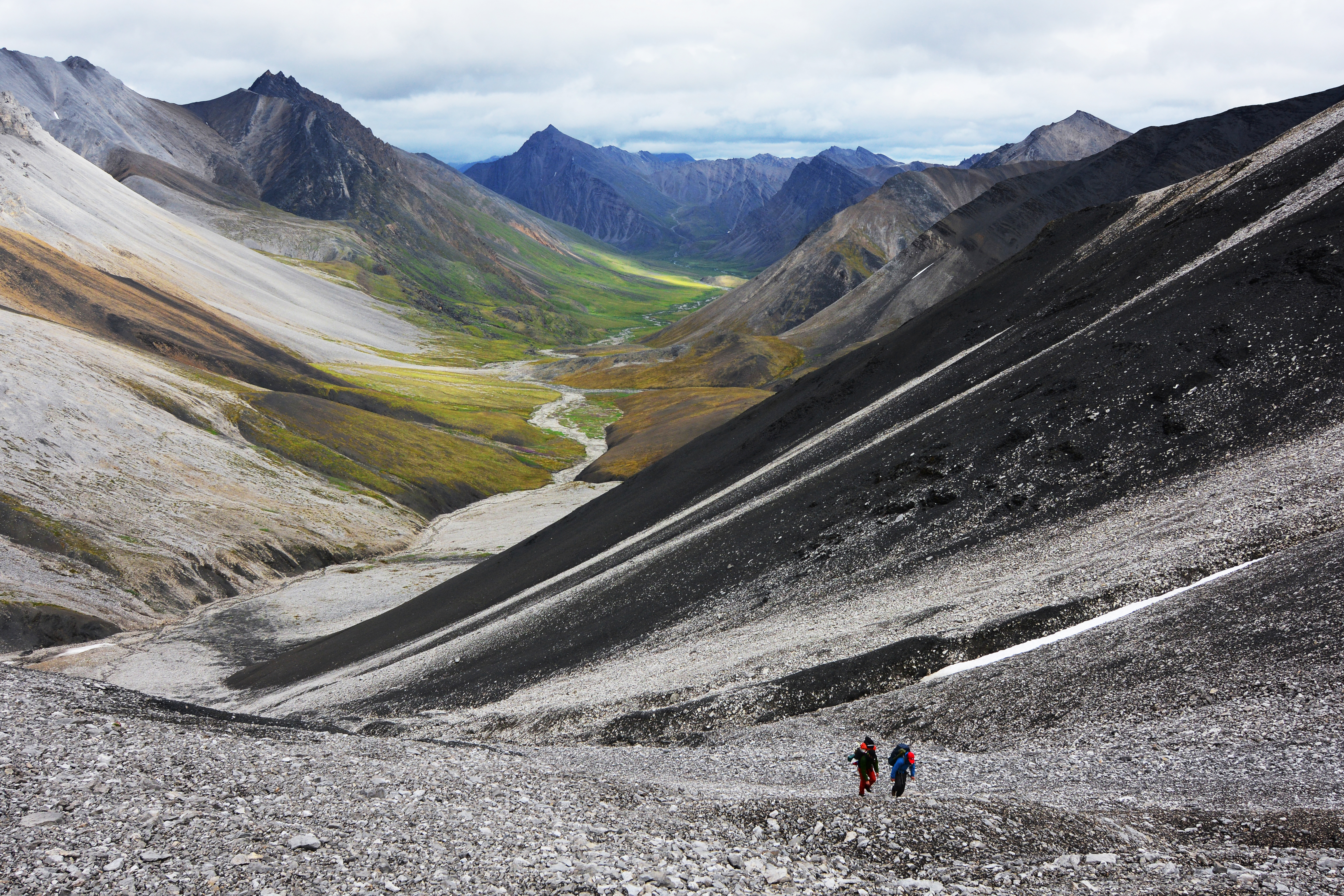 Hikers climb upward toward a high pass in Gates of the Arctic National Park.